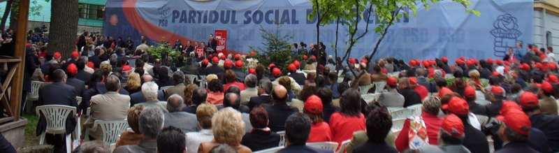 PSD meeting on the occasion of the visit of Poul Nyrup Rasmussen, president of the PES, May 2006